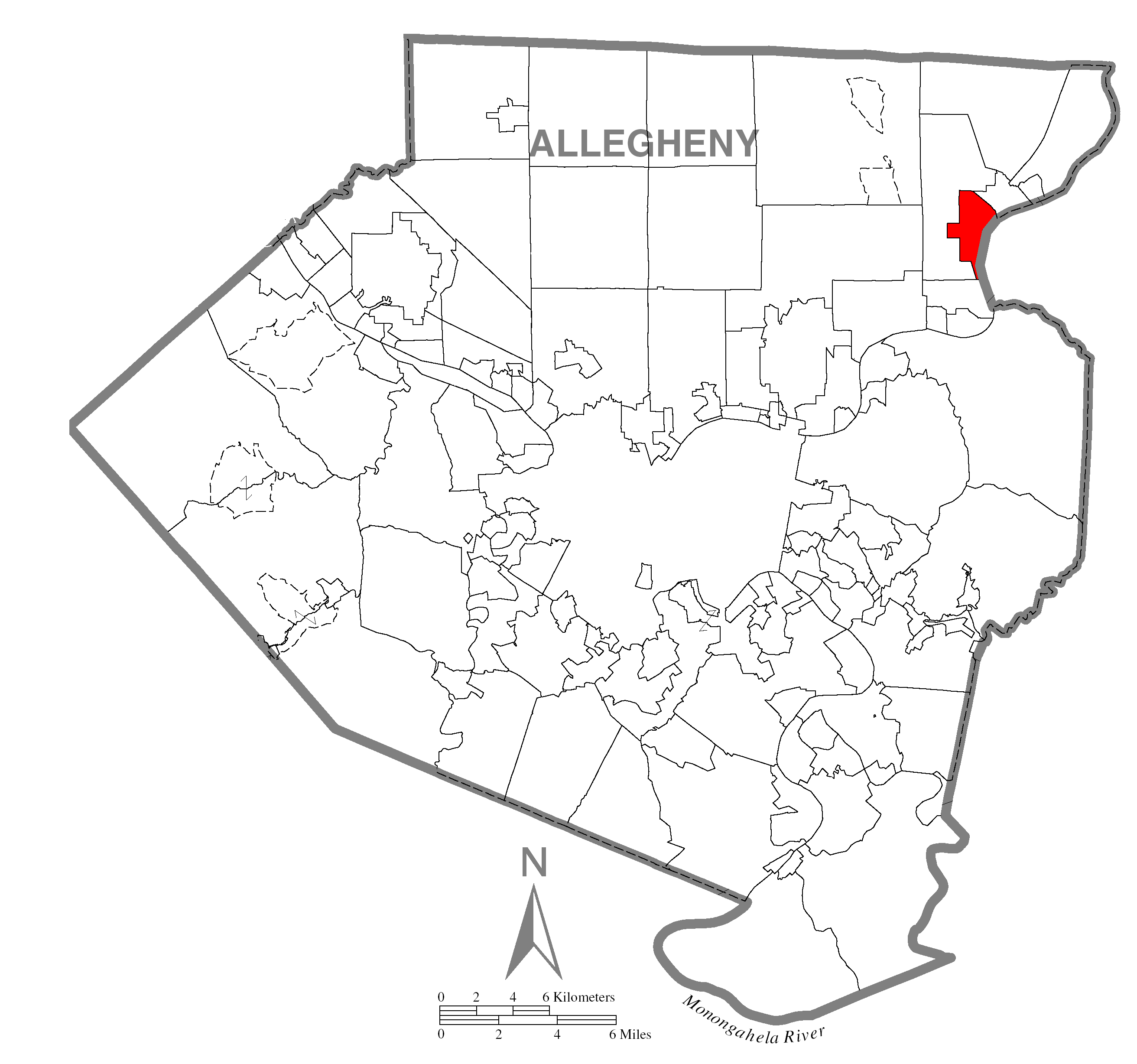 A map of Allegheny County showing East Deer Township, Pennsylvania (alternate) highlighted on the map.